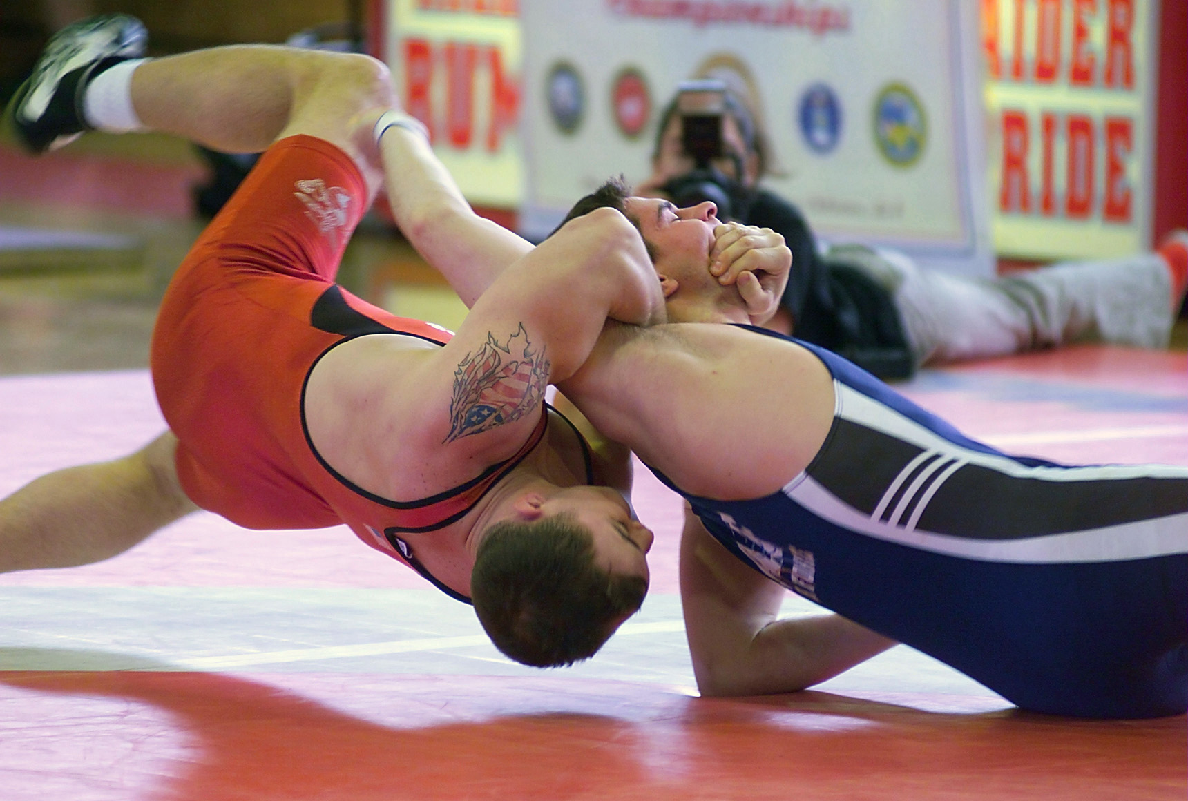 US Marine Corps (USMC) Corporal (CPL) Jacob Clark (dressed in red), a member of the All Marines Wrestling Team, competes in a Freestyle wresting match against a member of the All US Air Force (USAF) Team, during the Armed Forces Wrestling Championship held in New Orleans, Louisiana (LA). Author: Staff Sergeant Jason M. Carter, USMC (Released to Public)